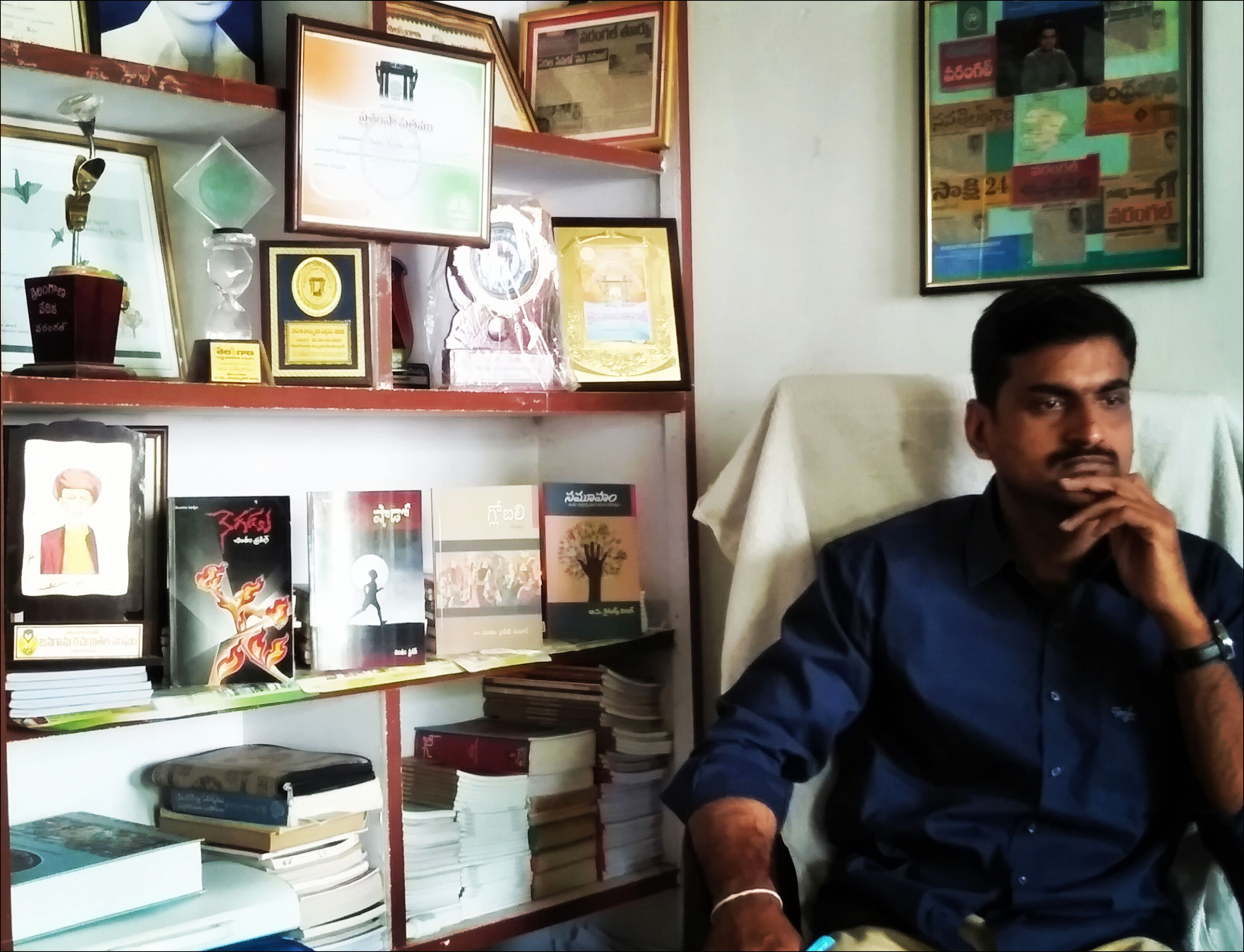 Chintham praveen with his books and awards